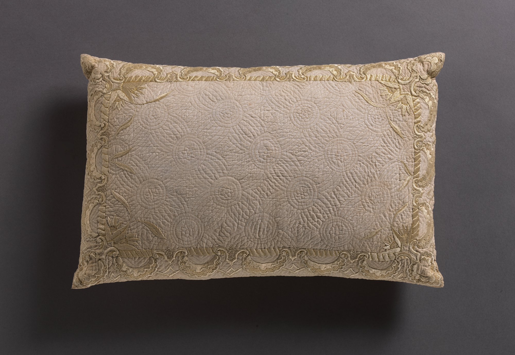 British; Pillow; Textiles-Embroidered